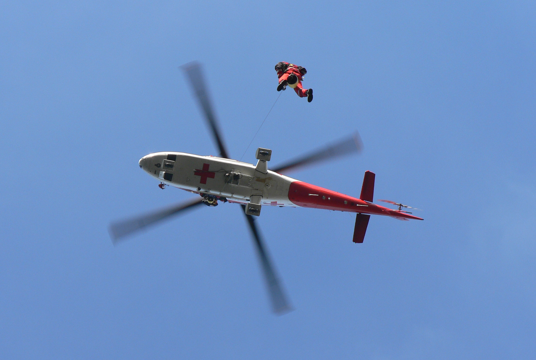 Agusta A109 K2 helicopter of the Air – Transport Europe, air rescue in Slovakia. Ex-REGA aircraft